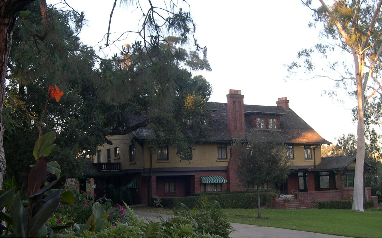 George Marston House Built 1905 for George Marston, San Diego merchant and philanthropist. This is an early example of the work of San Diego architects William Hebbard and Irving Gill. American Arts and Crafts style. Listed on the National Register of Historic Places.